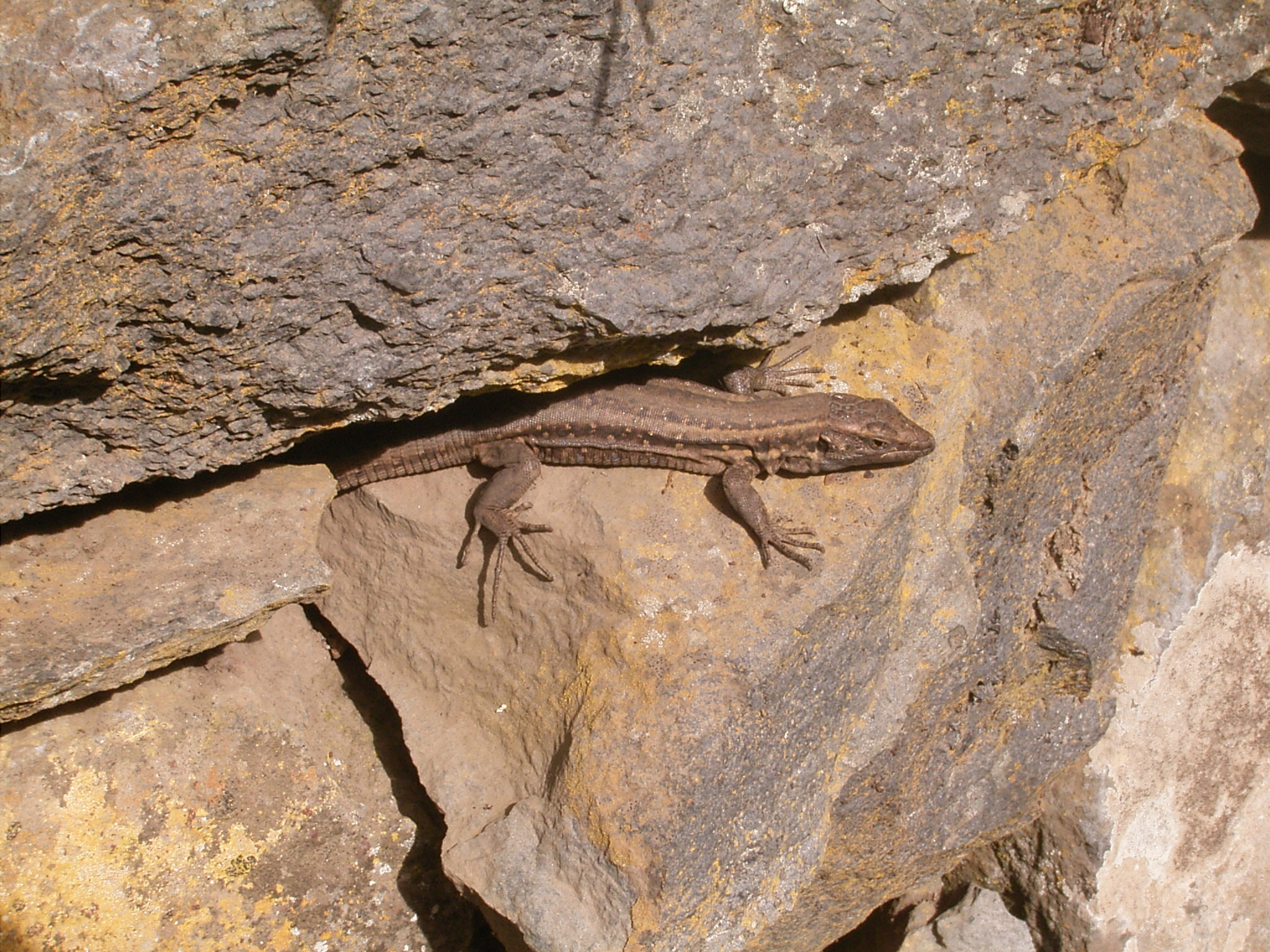 Gallotia galloti (female), seen in Garafía, La Palma, Canary Islands